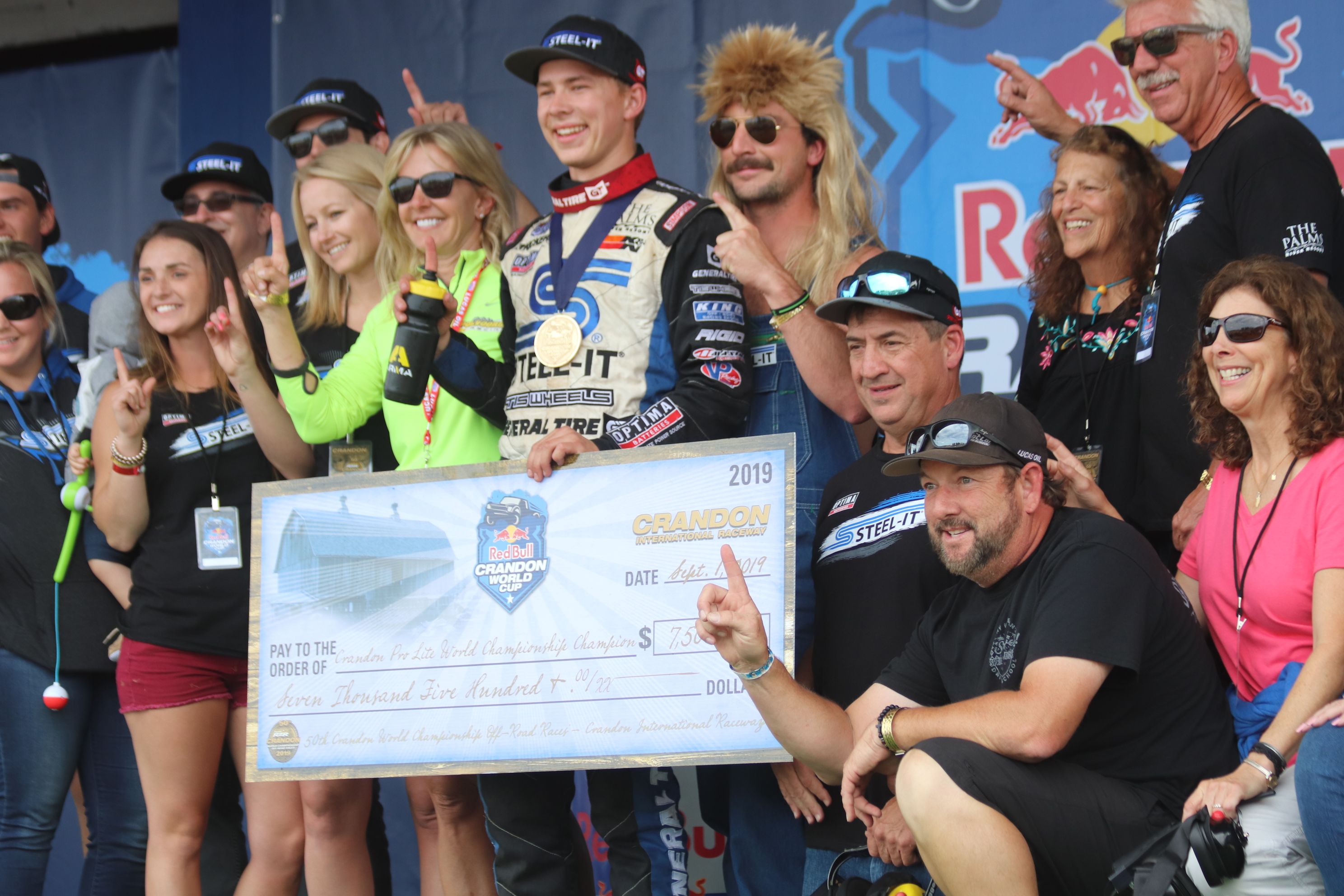 Christopher Polvoorde with his team after winning the Pro Lite World Championship race at Crandon International Off-Road Raceway